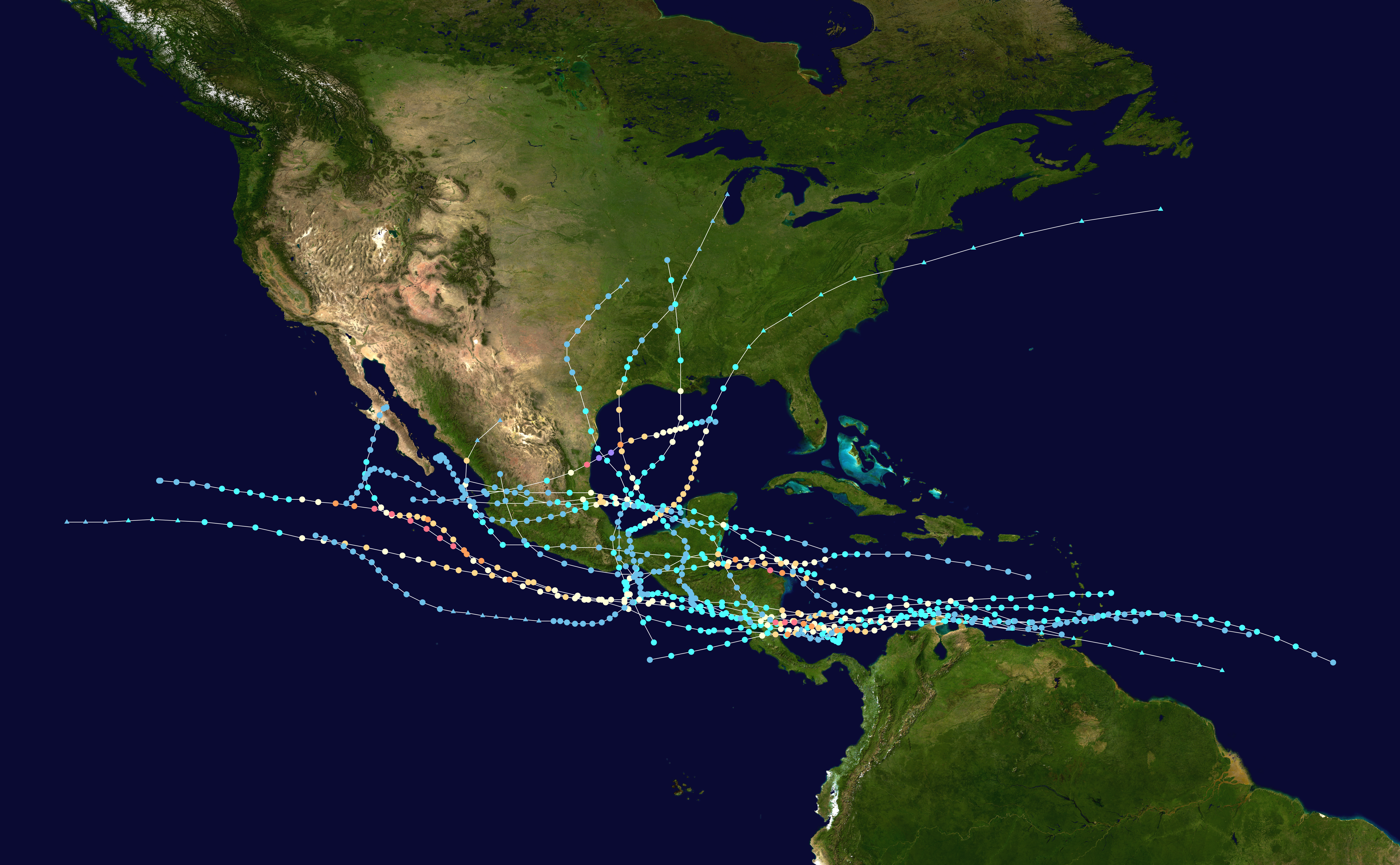 Track map of all Atlantic–Pacific crossover hurricanes in the North Atlantic Basin. The points show the location of the storm at 6-hour intervals. The colour represents the storm's maximum sustained wind speeds as classified in the Saffir-Simpson Hurricane Scale (see below), and the shape of the data points represent the nature of the storm, according to the legend below. Saffir–Simpson scale Tropical depression≤38 mph≤62 km/h Category 3111–129 mph178–208 km/h Tropical storm39–73 mph63–118 km/h Category 4130–156 mph209–251 km/h Category 174–95 mph119–153 km/h Category 5≥157 mph≥252 km/h Category 296–110 mph154–177 km/h Unknown Storm type Tropical cyclone Subtropical cyclone Extratropical cyclone / Remnant low / Tropical disturbance